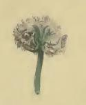 Stainton’s Natural History of the Tineina (1855–1873): Aristotelia brizella a flower head of Armeria maritima attacked by larva